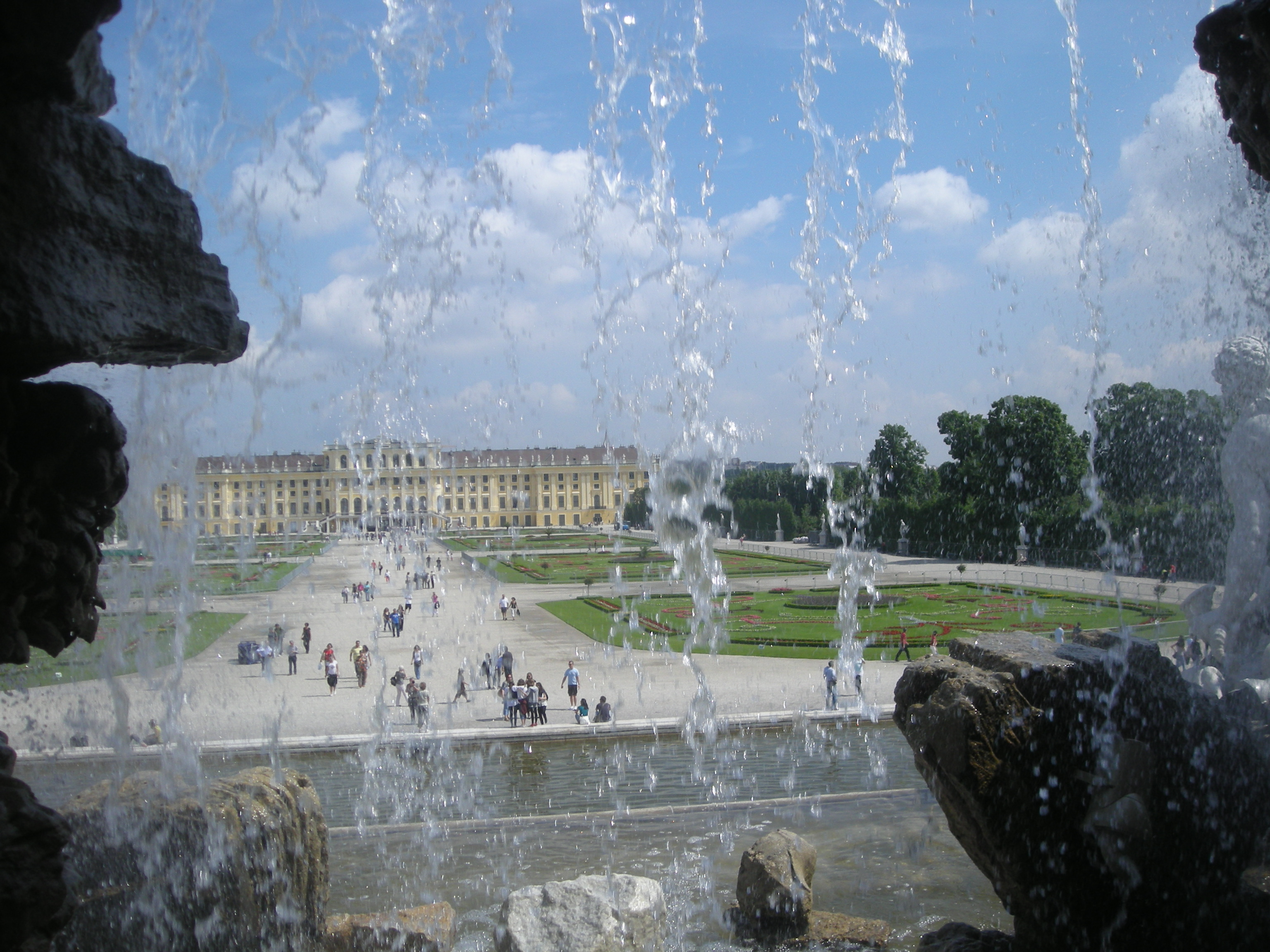 Trough the wather curtain